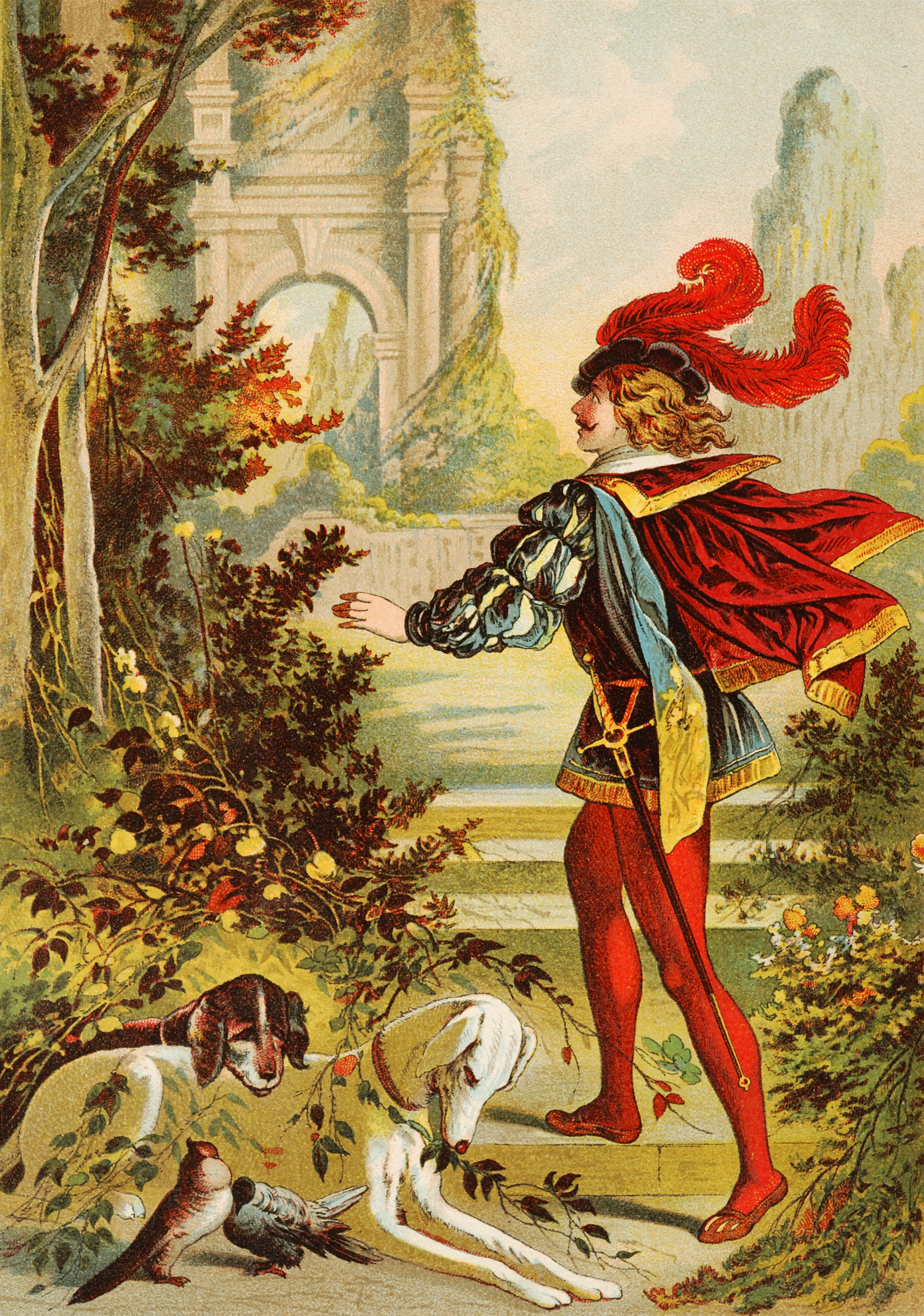 Sleeping Beauty, illustration by Heinrich Leutemann or Carl Offterdinger